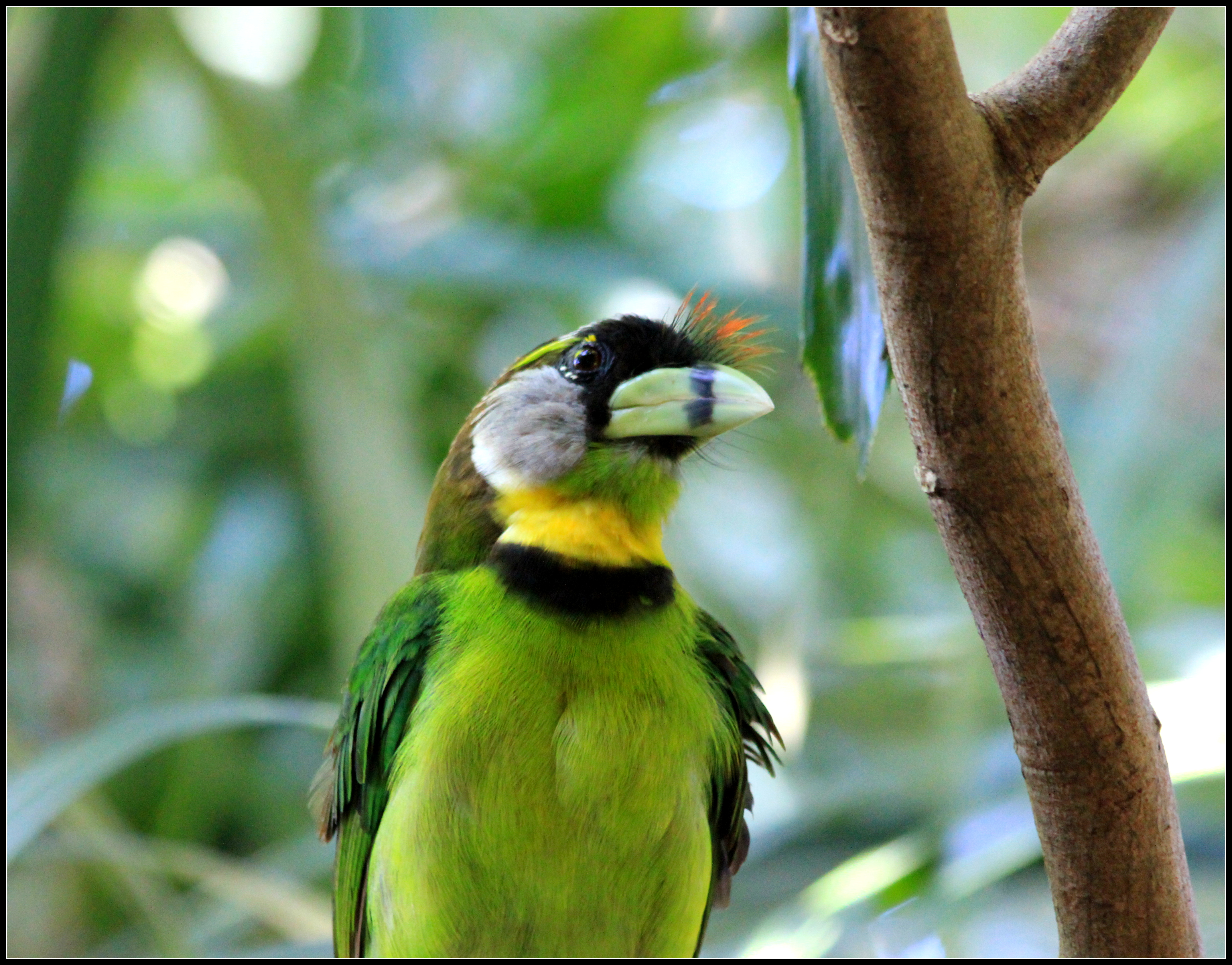 Habitat- It is found in Indonesia, Malaysia, and Thailand. Its natural habitats are subtropical or tropical moist lowland forests and subtropical or tropical moist montane forests.